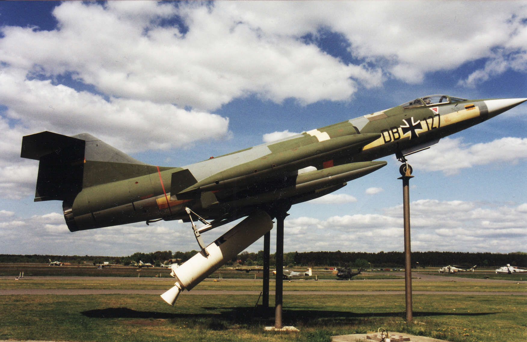 F-104G zero-length launch aircraft on display at the Luftwaffenmuseum der Bundeswehr, Berlin-Gatow